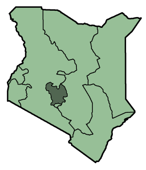 Central Province of Kenya